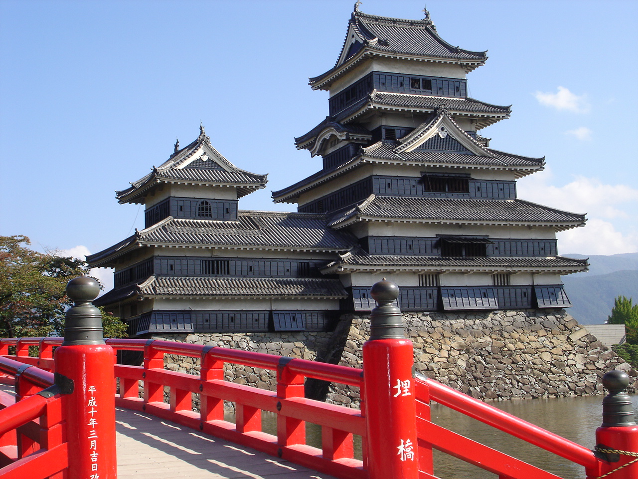 Matsumoto castle (Japan)